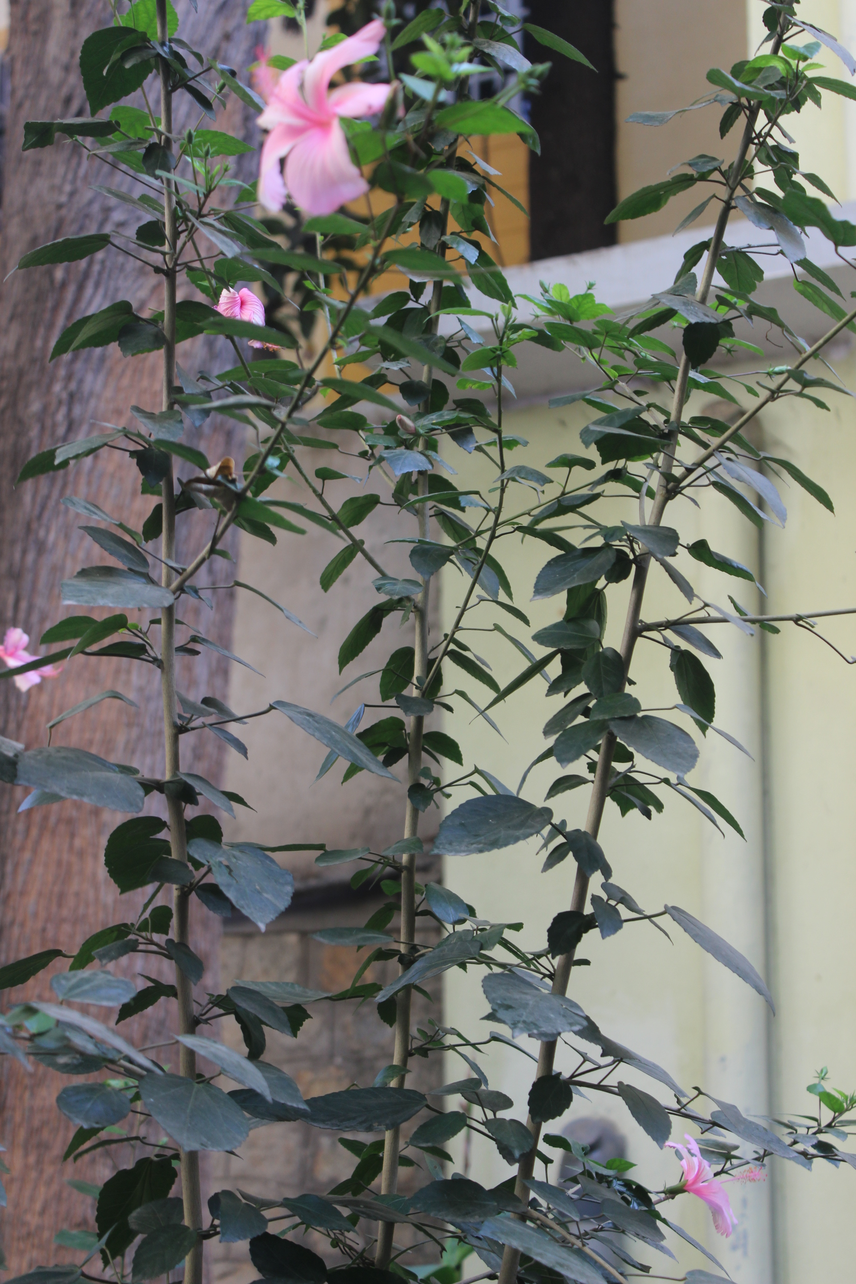 Daasavaala